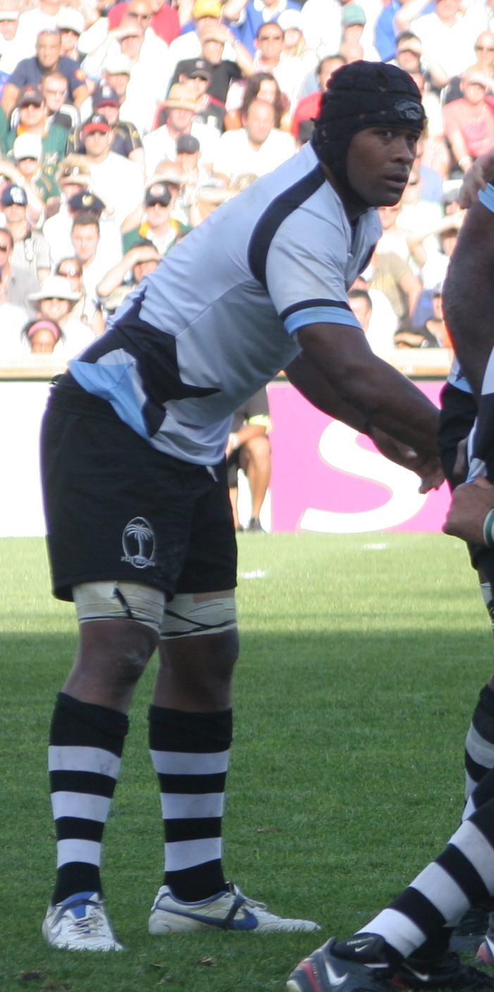 Fijian rugby union player Akapusi Qera during 2007 Rugby World Cup quater-final against South Africa, that took place in Marseille.